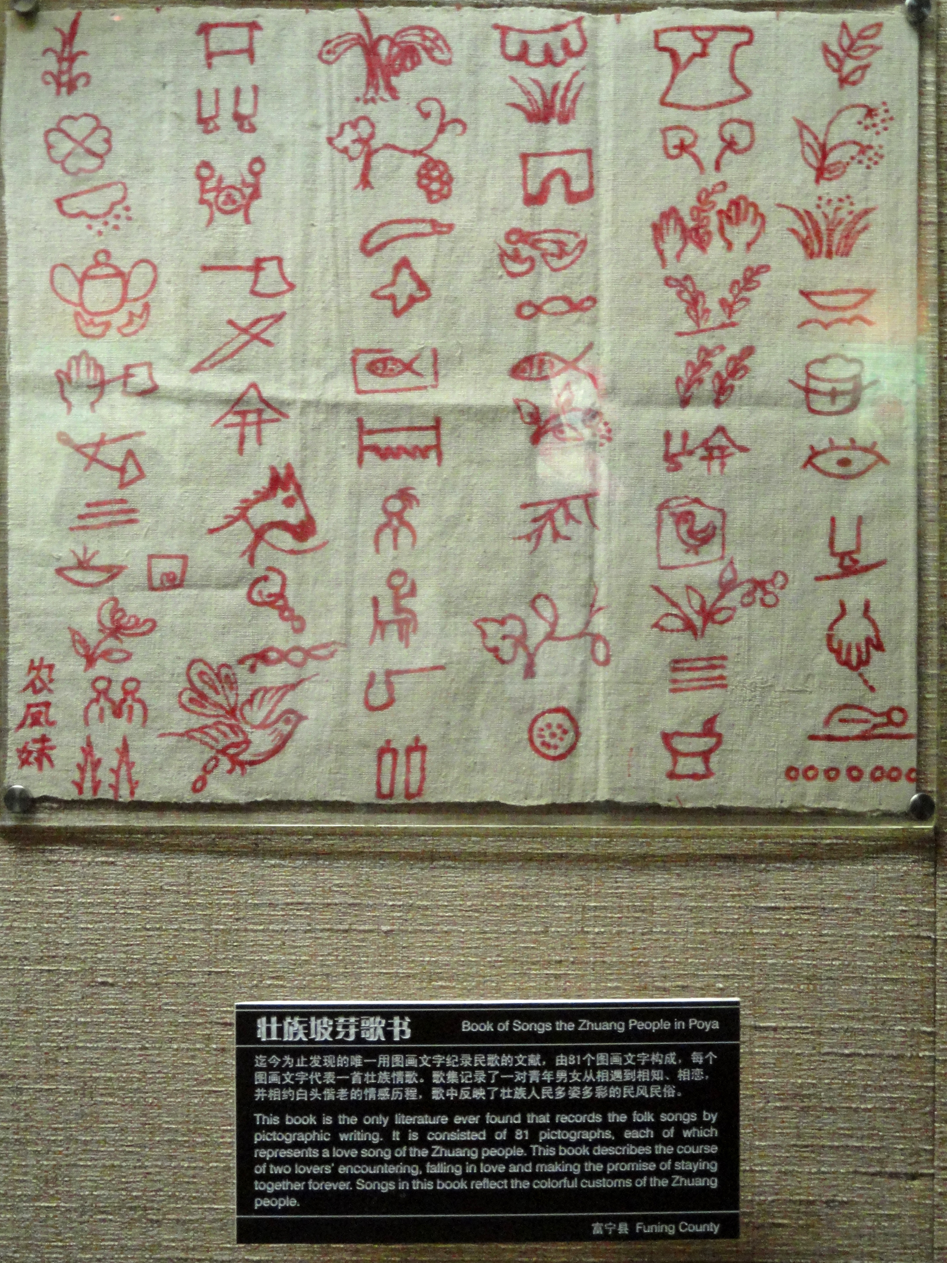 Most of the Poya songbook, which contains 81 symbols each representing a Zhuang folk song. Discovered in 2006 in Funing county, Yunnan. Zhao Liming (赵丽明) (2009). “坡芽歌书”是什么文字？. Manuscripts / writing systems in the Yunnan Nationalities Museum, Kunming, Yunnan, China.